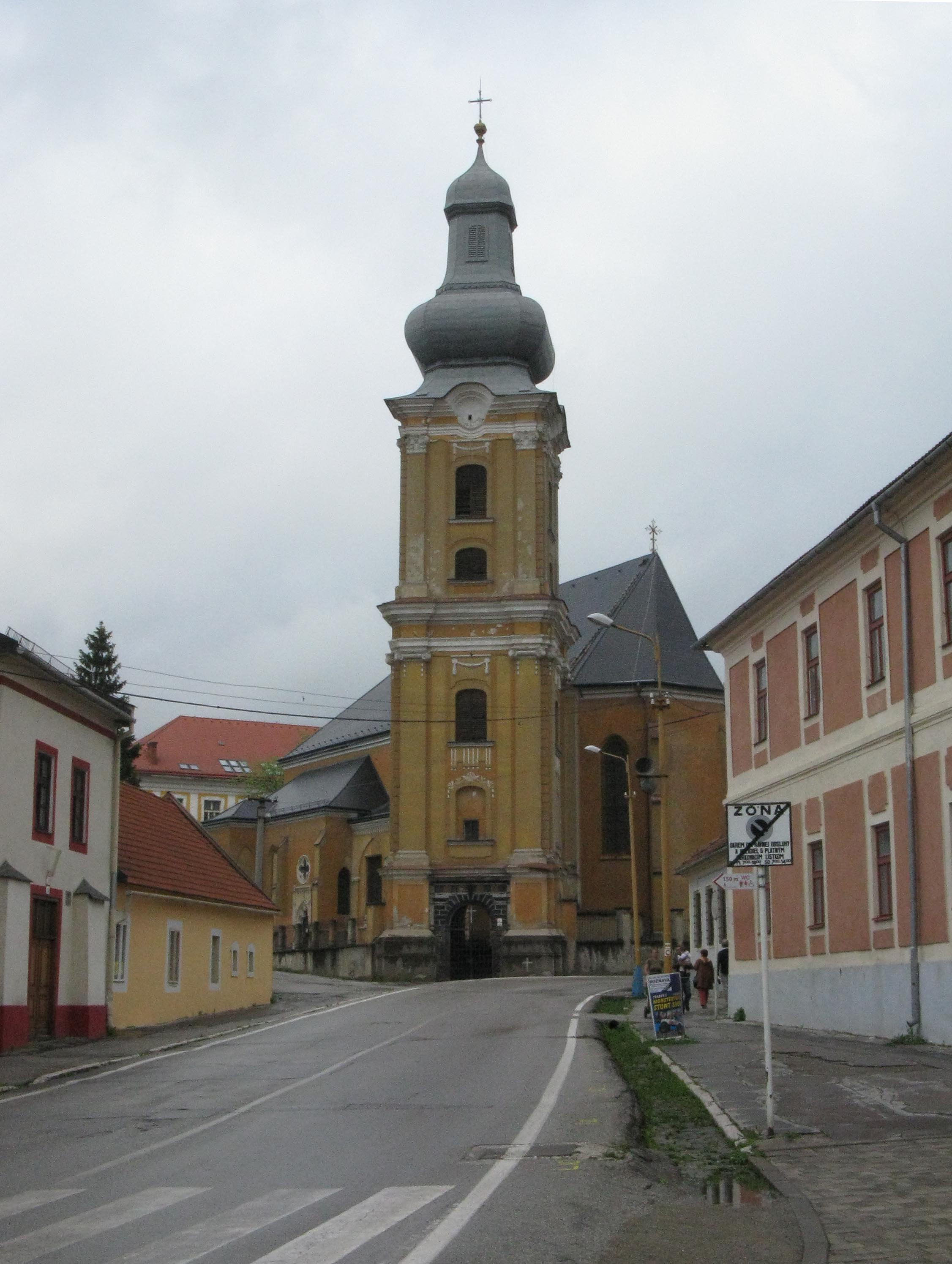 Rožňava Cathedral Church